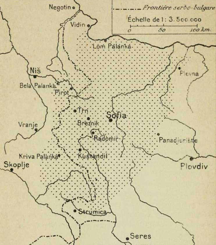 Map of Shopi